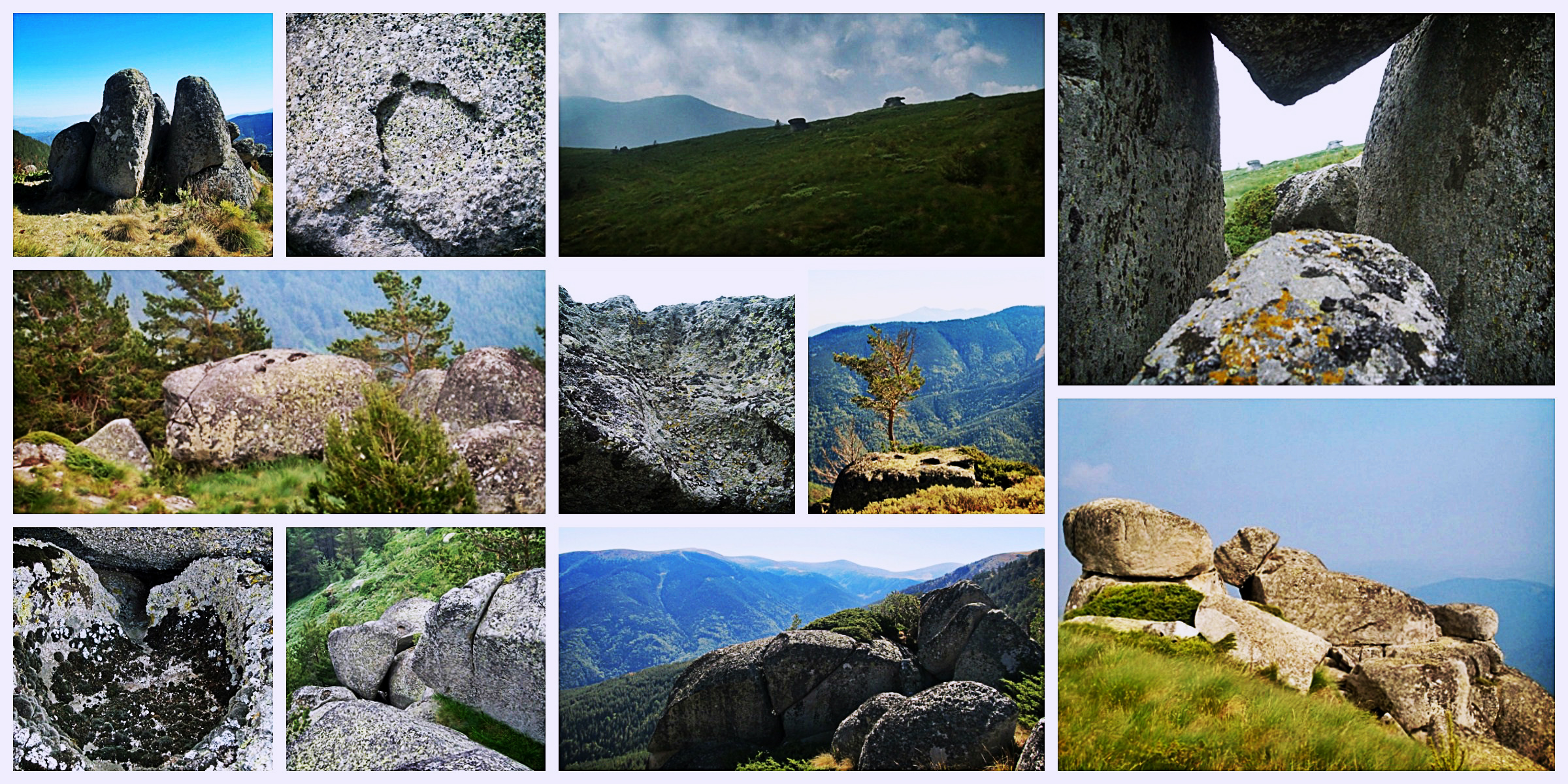 Tsarev_vrah_Rila_elements_sanctuary_BG